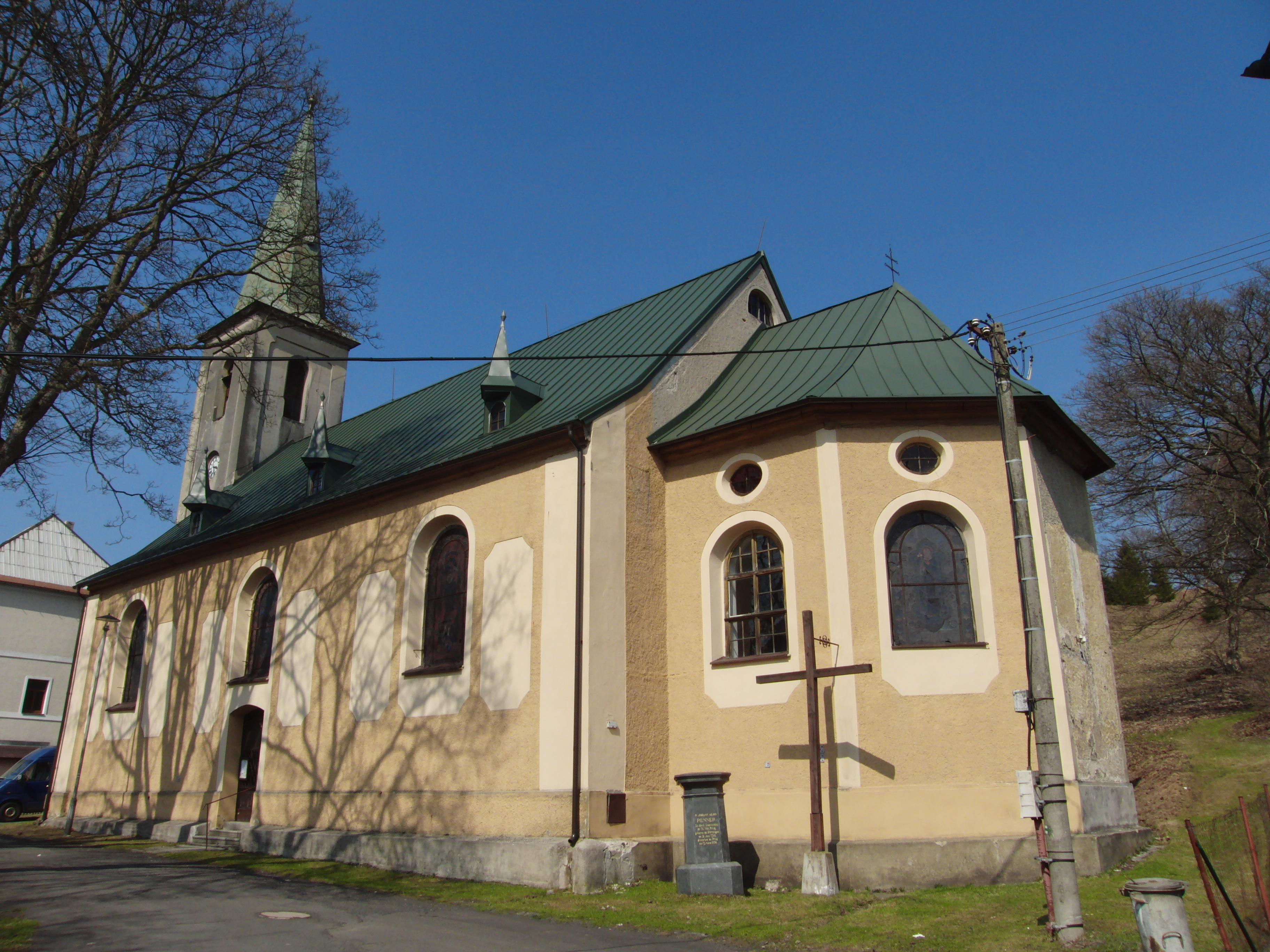 Holy Trinity church in Pernink, cultural monument